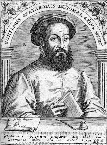 Guglielmo Grataroli (1516-1568), italian physician and scientist, painted by Jean-Jacques Boissard (Bergamo)